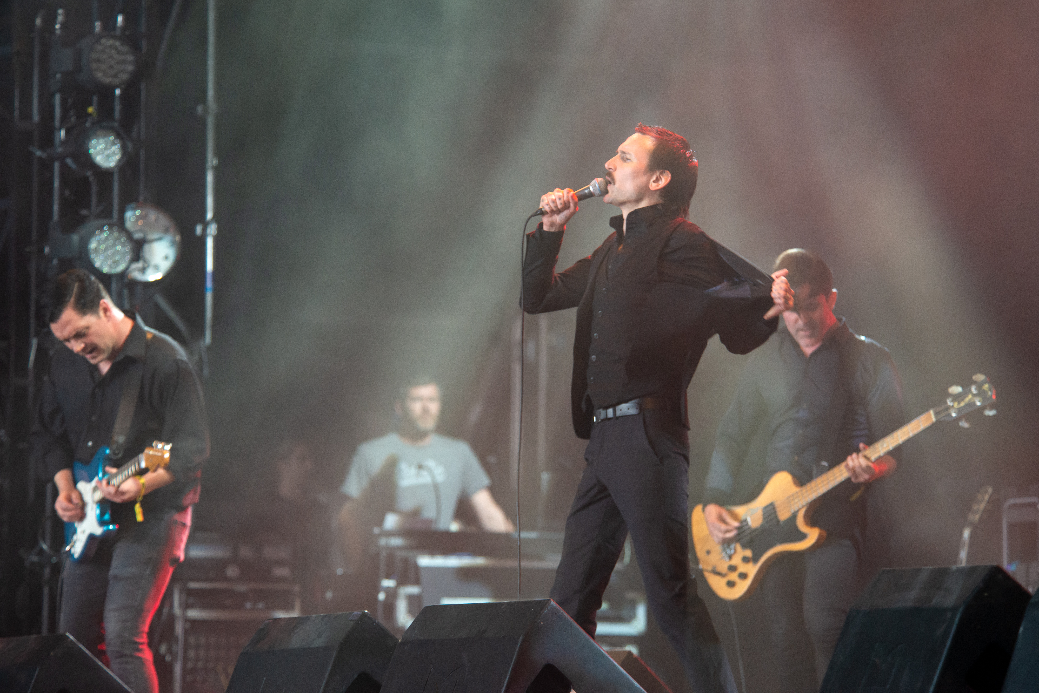 Daughters set at 2019 Hellfest, Clisson, France.